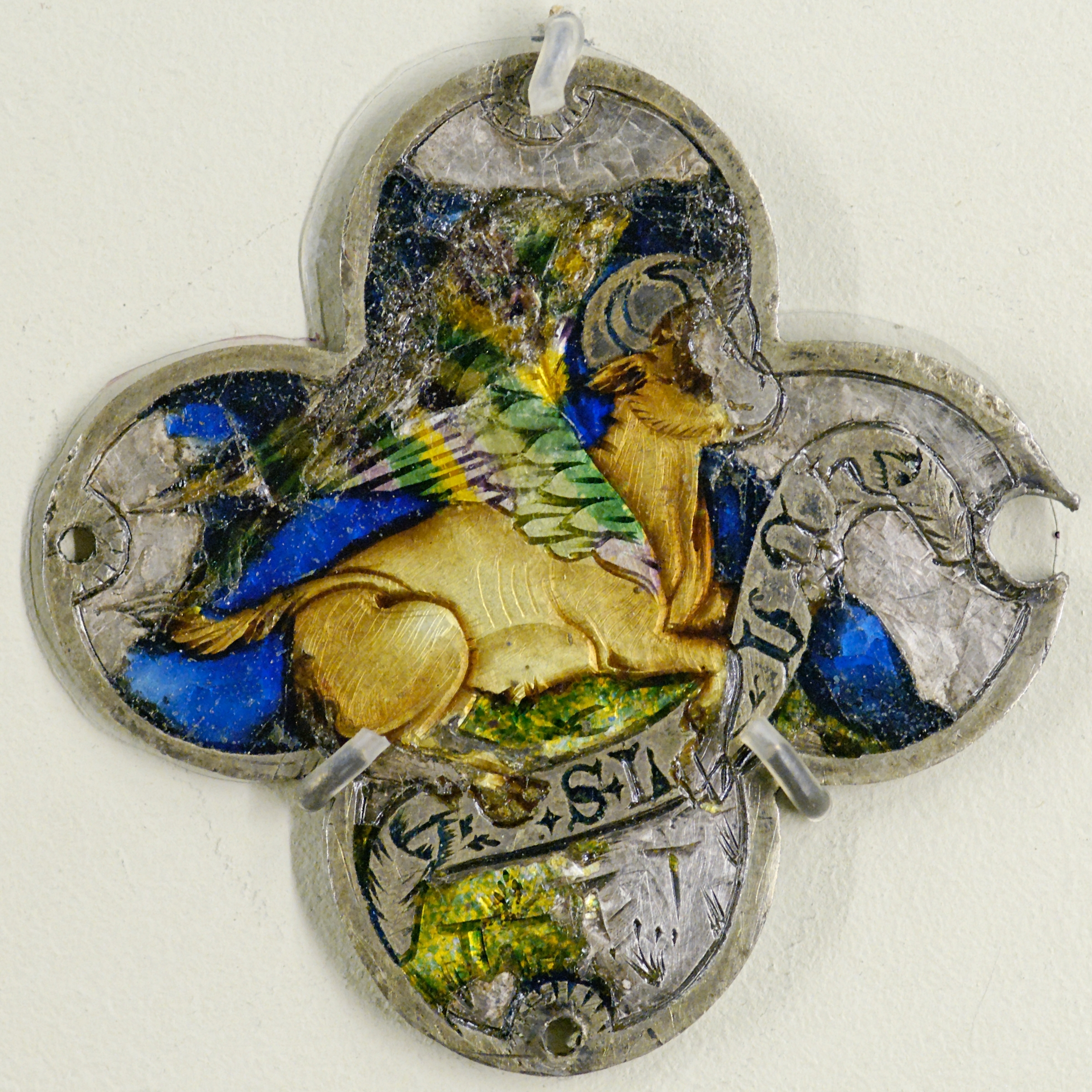 Medallion with the bull of St Luke. Translucent enamelling on basse-taille silver, Catalunya, second half of the 14th century.